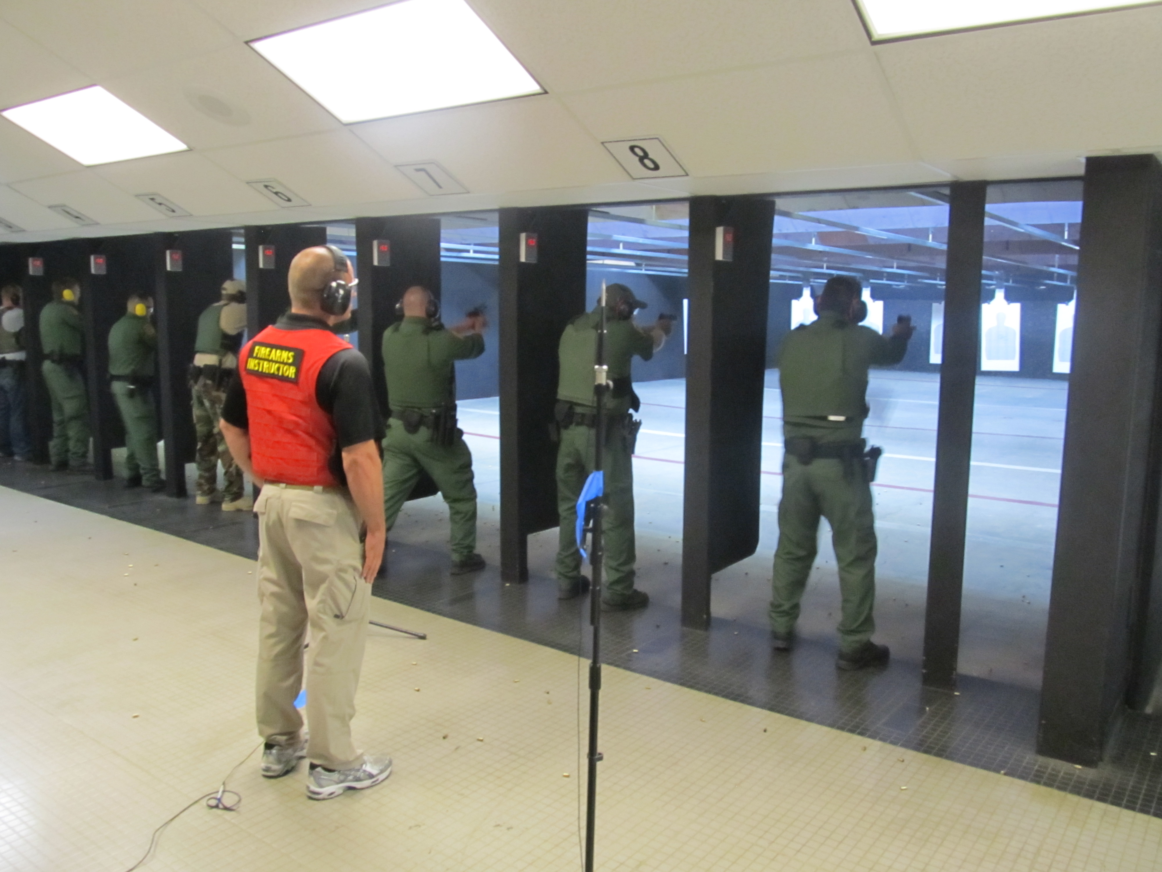 Federal law enforcement officers during firearms training exercises at indoor firing range